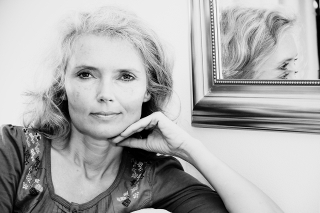 The author Mari Kjetun